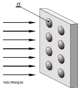 Neutron cross sections